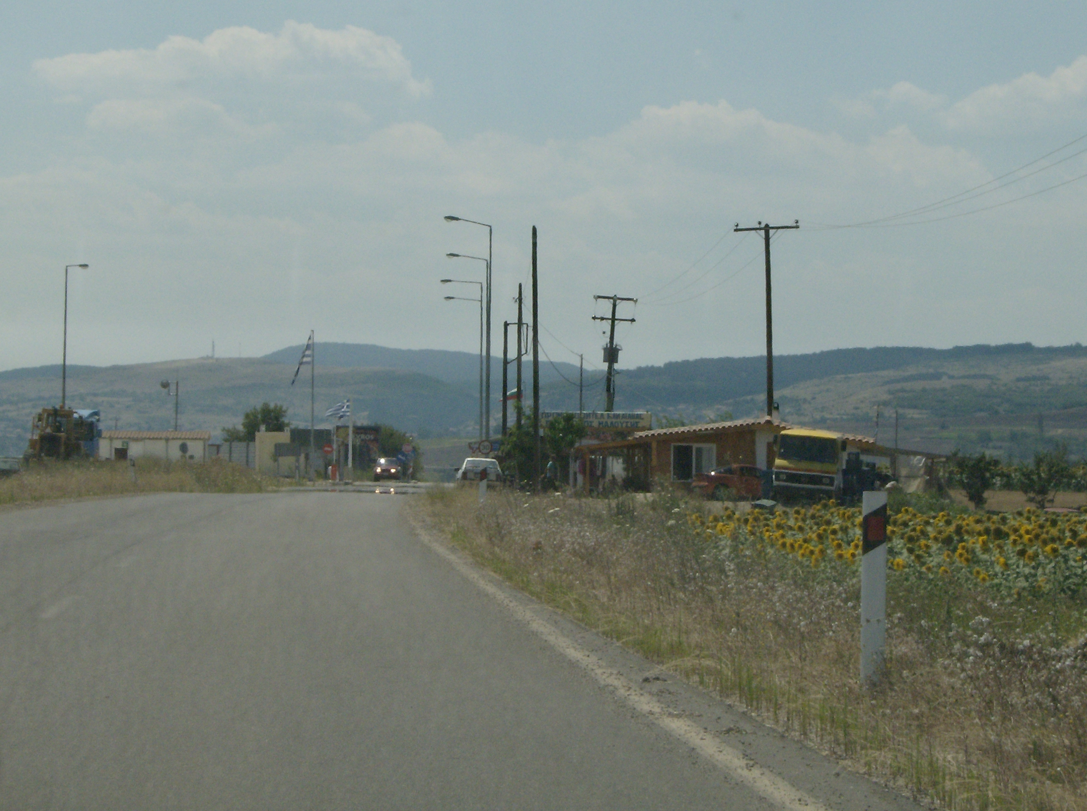 Slaveevo - Kyprinos Border Check Point